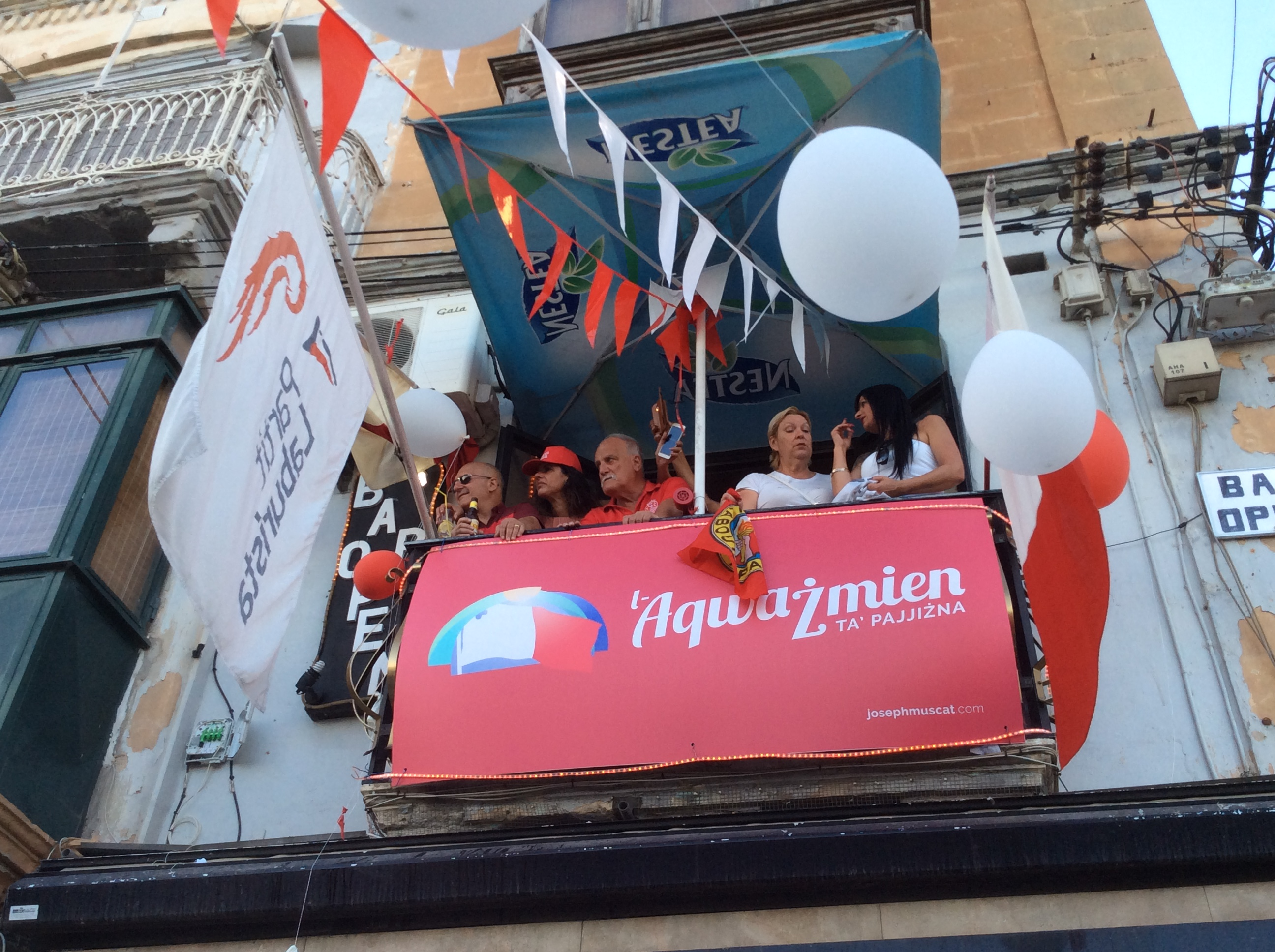 Sliema May 2017